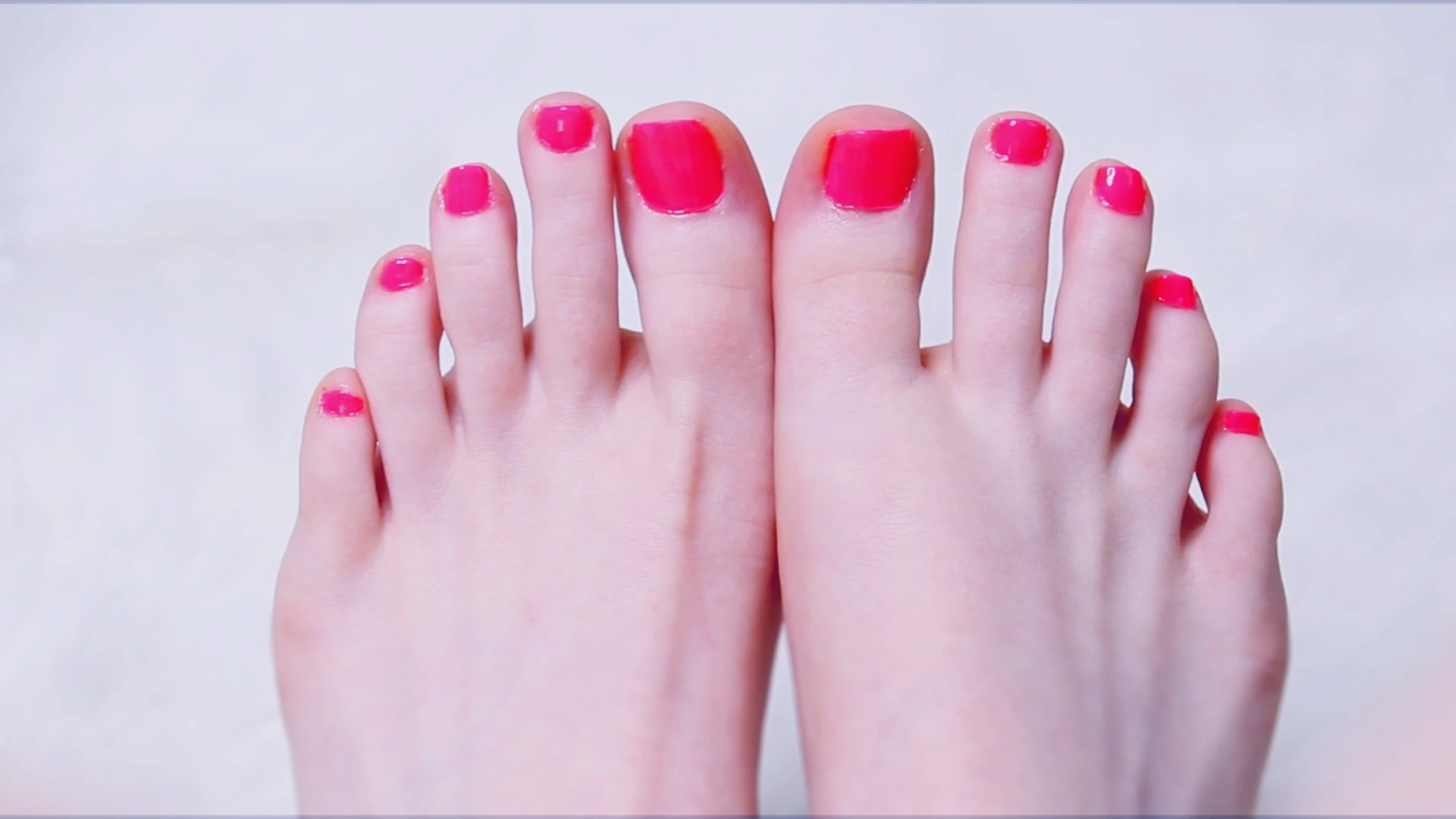 Female toes painted with nail polish